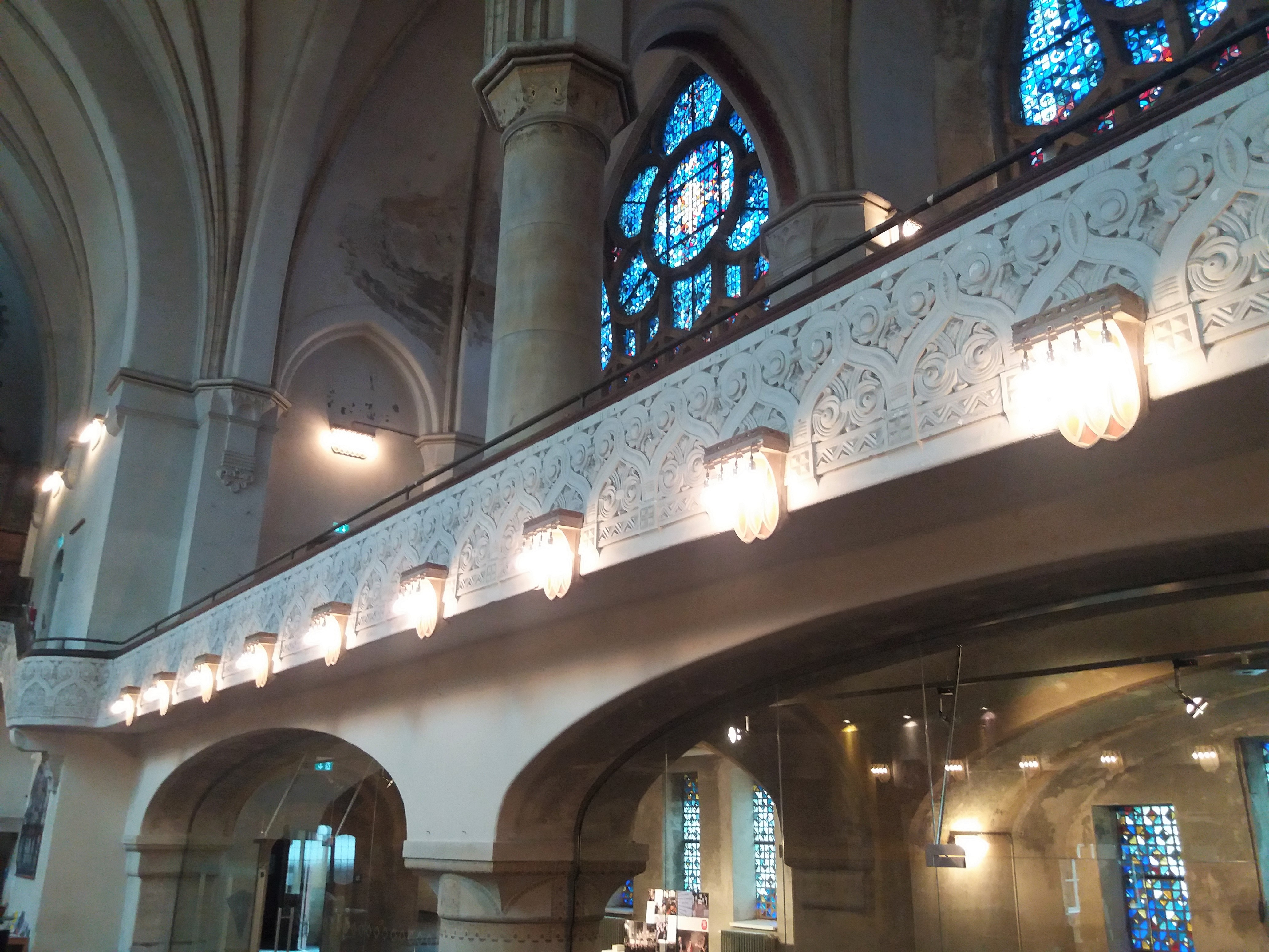 Bulbs from the electric lightning at Zwingli Church, Berlin